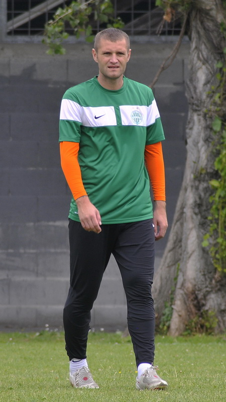 Đorđe Tutorić, Serbian association football player.